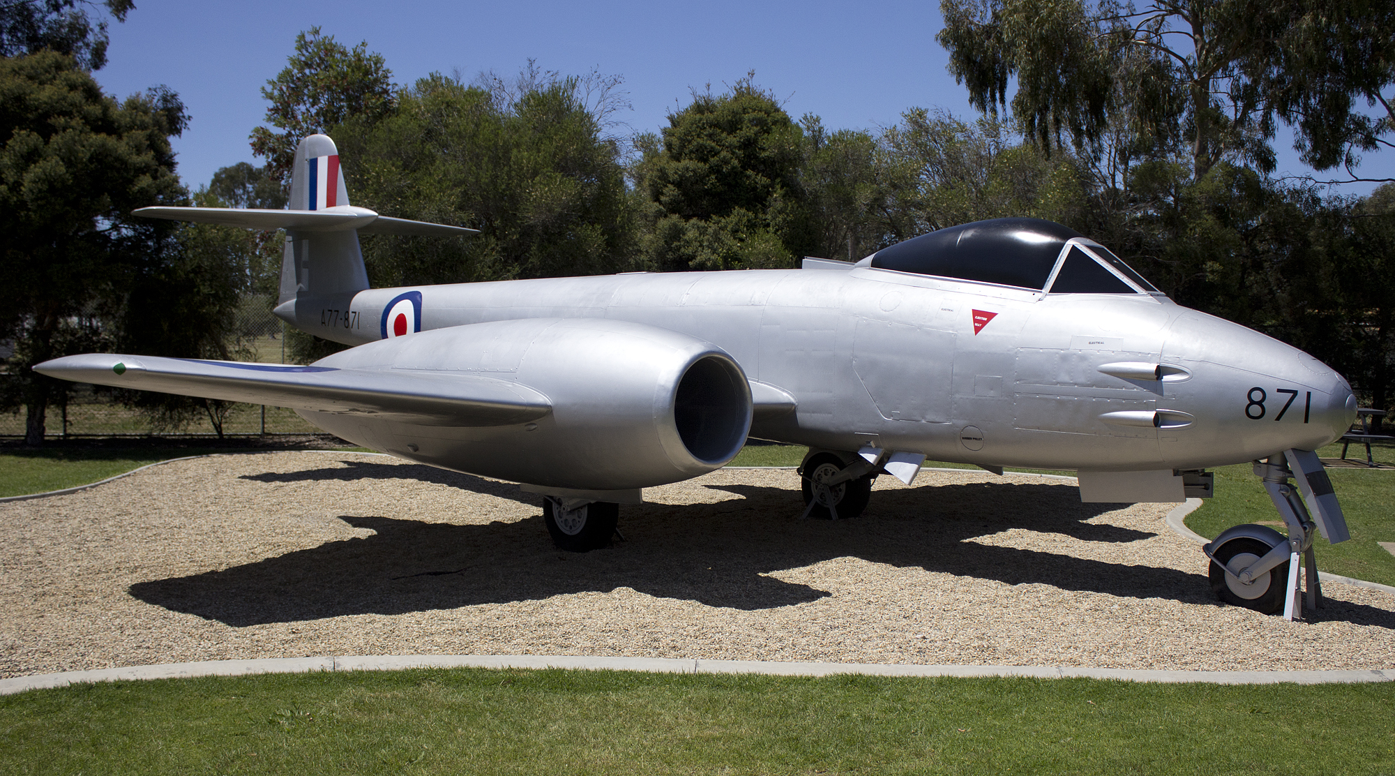 Gloster Meteor A77-871 WK791 F8 now a gate guardian at RAAF Base Wagga.